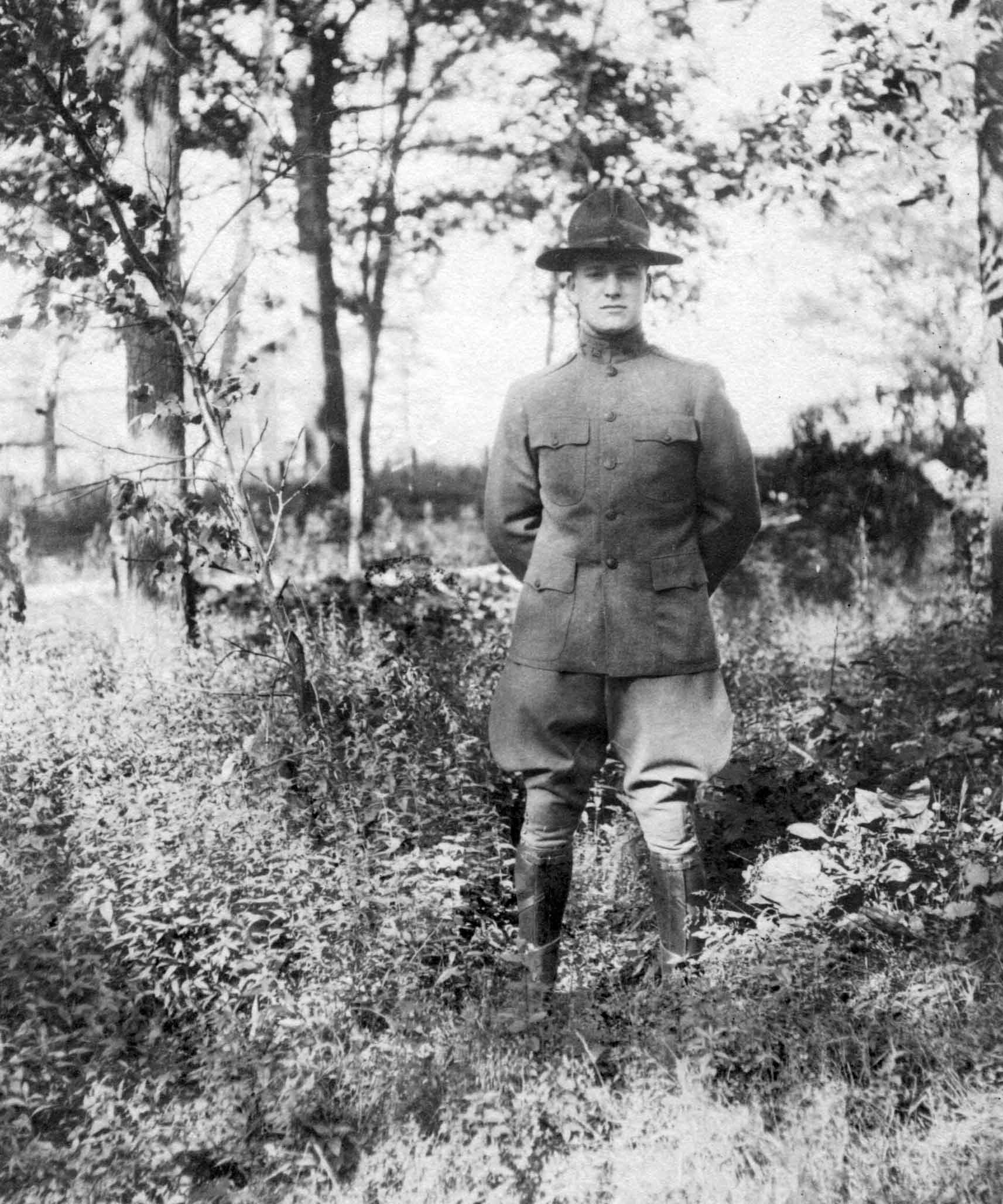 Family photo